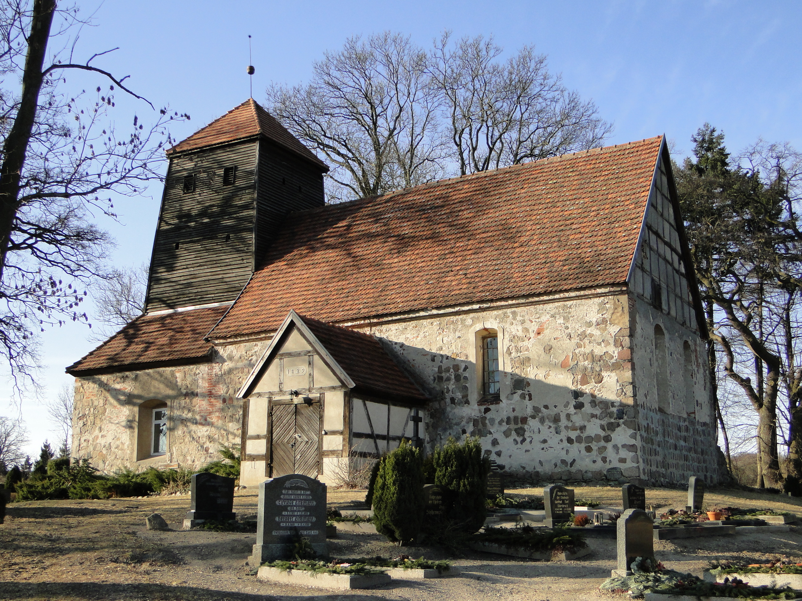 Church in Lichtenberg, district Mecklenburg-Strelitz, Mecklenburg-Vorpommern, Germany